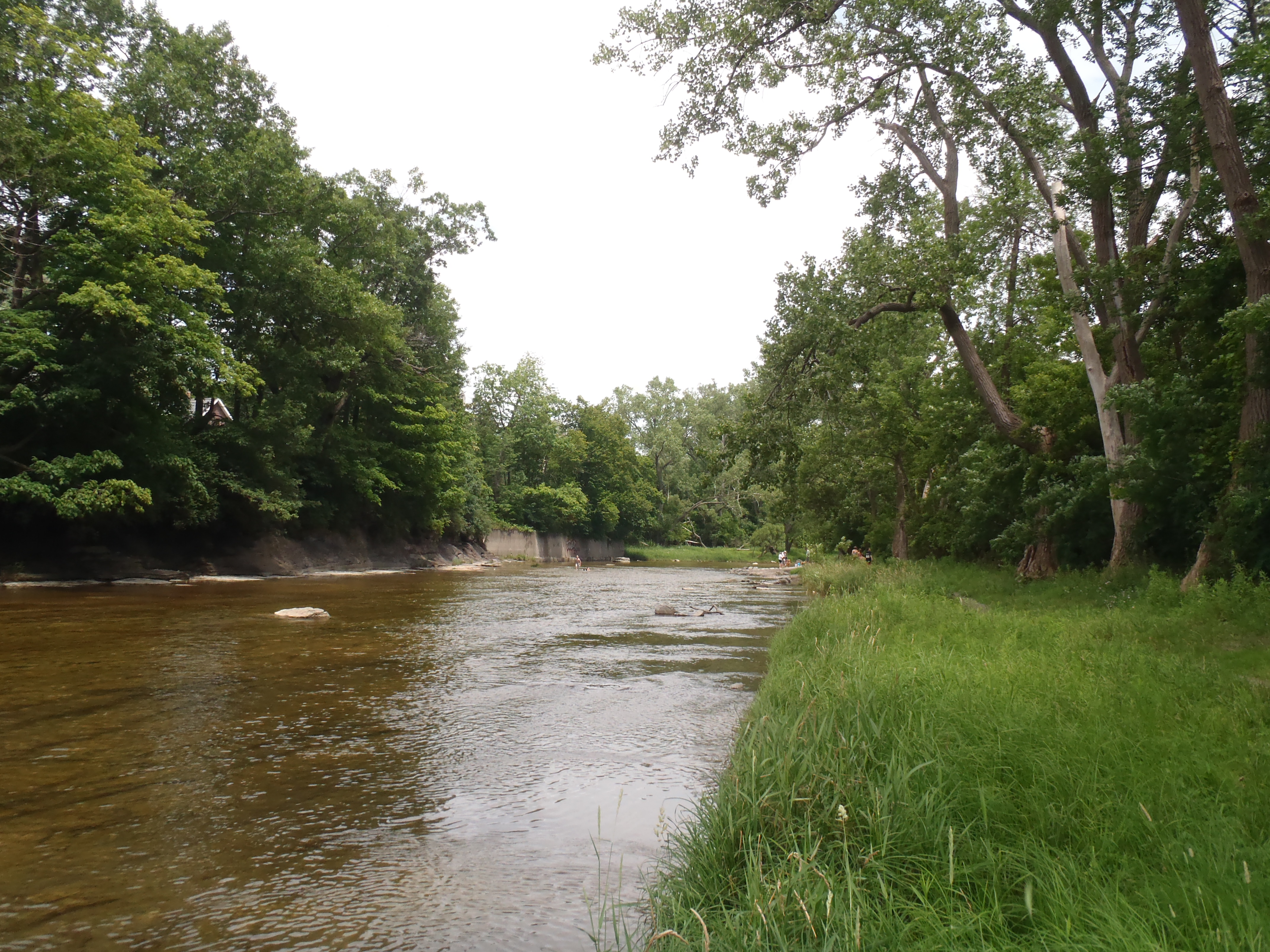 Seneca creek/Buffalo creek along the Charles E. Burchfield Nature & Art Center 2001 Union Road, West Seneca, New York 14224